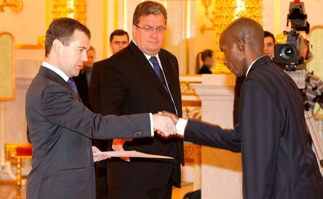 THE KREMLIN, MOSCOW. Presentation of foreign ambassadors’ letters of credence. Ambassador of the Republic of Burundi Isidore Nibizi.